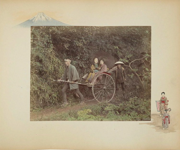 Jinriki, 1886. Two young women, one with an umbrella, are seated in a jinriki-sha (rickshaw) pulled by a jinriki (rickshaw driver). An assistant brings up the rear of the jinriki-sha. Outdoor setting in leafy area. Hand-coloured albumen silver print on a decorated album page by Adolfo Farsari. Accessed 9 February 2006.